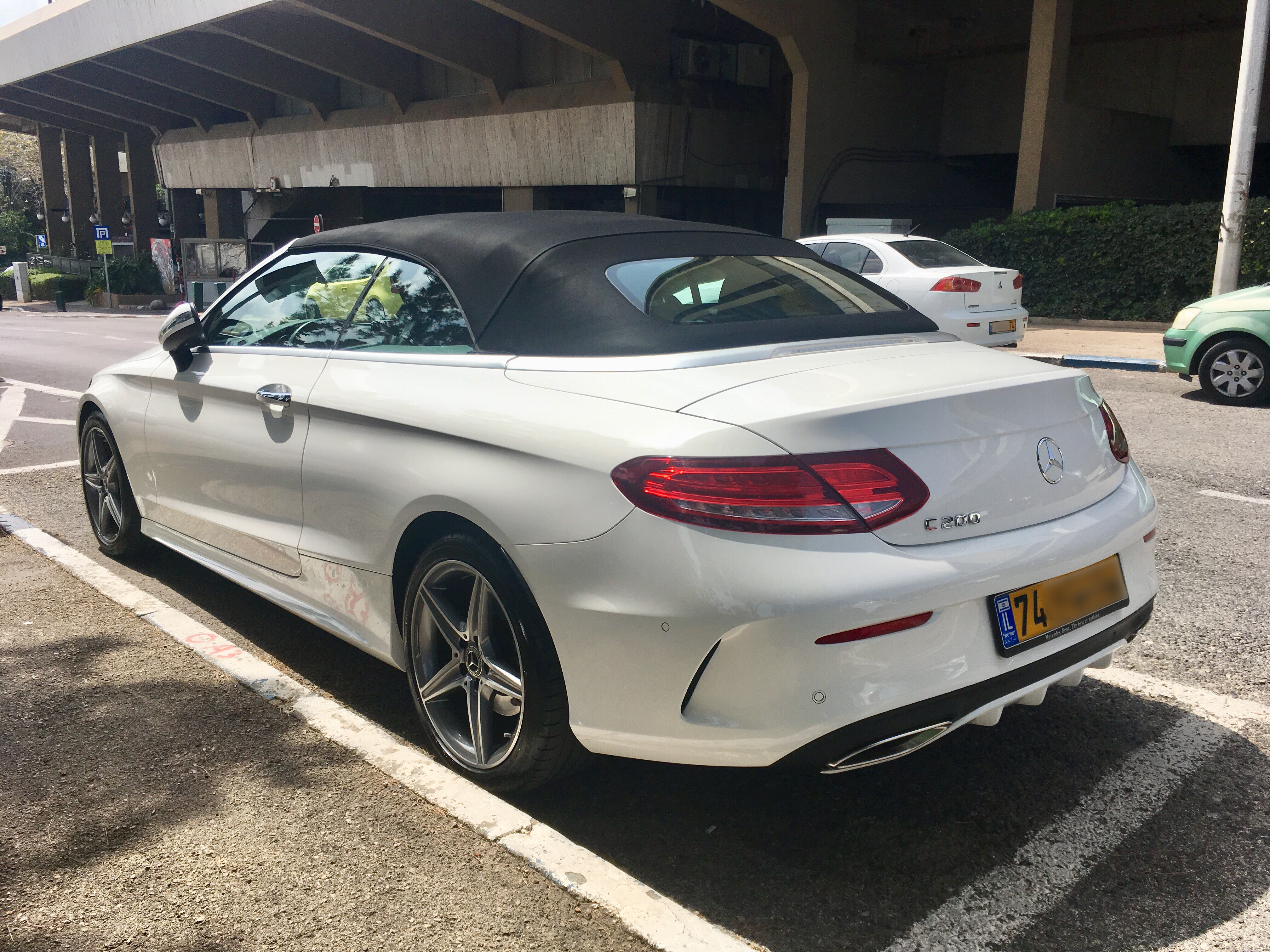 C200 Cabriolet